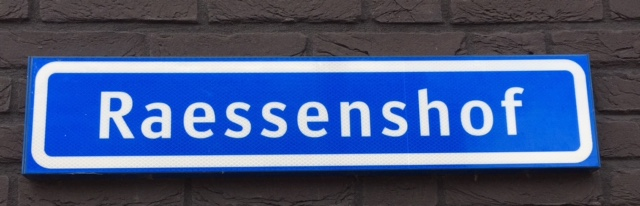 raessenshof